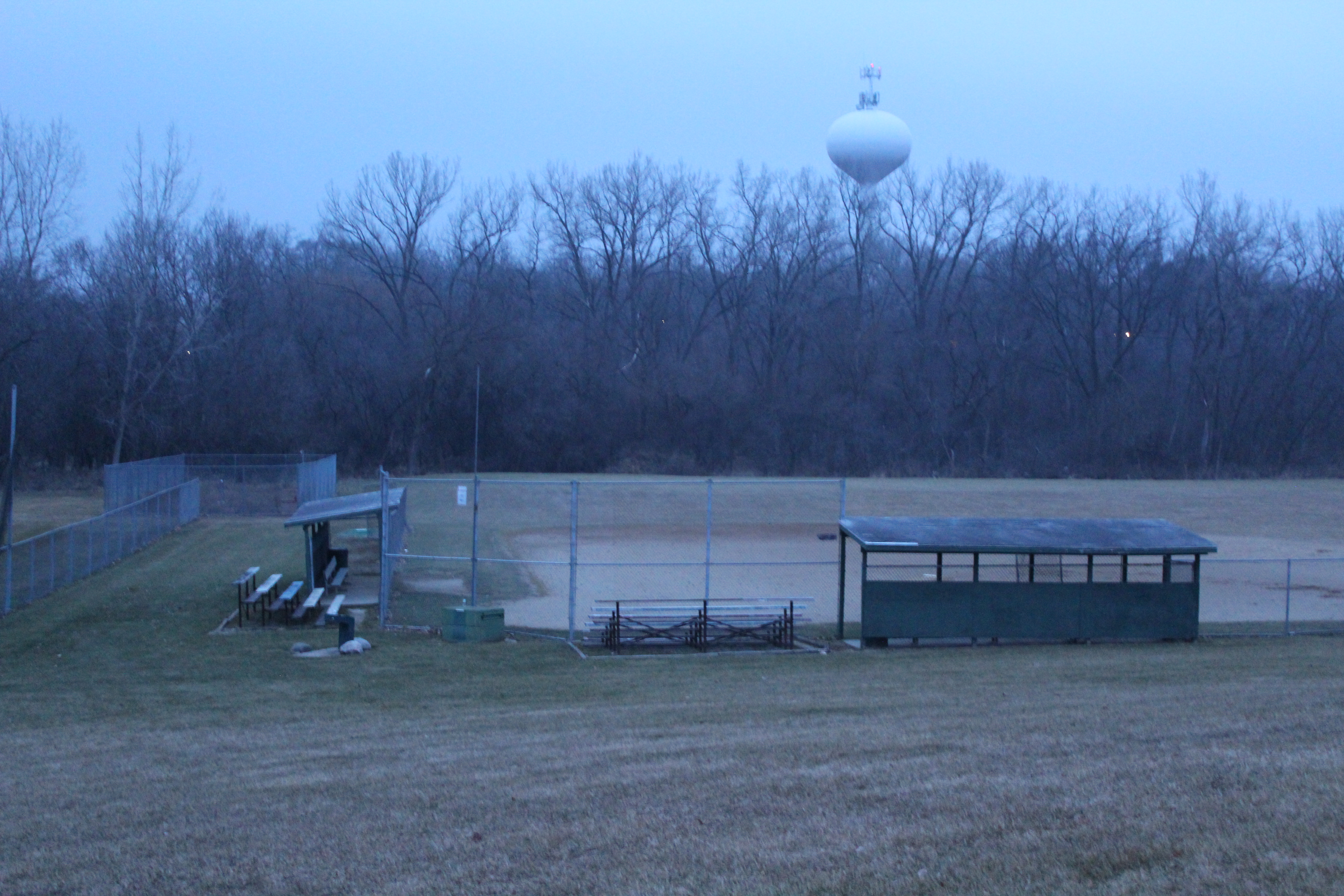 Baseball Field in Fox River Grove, Illinois